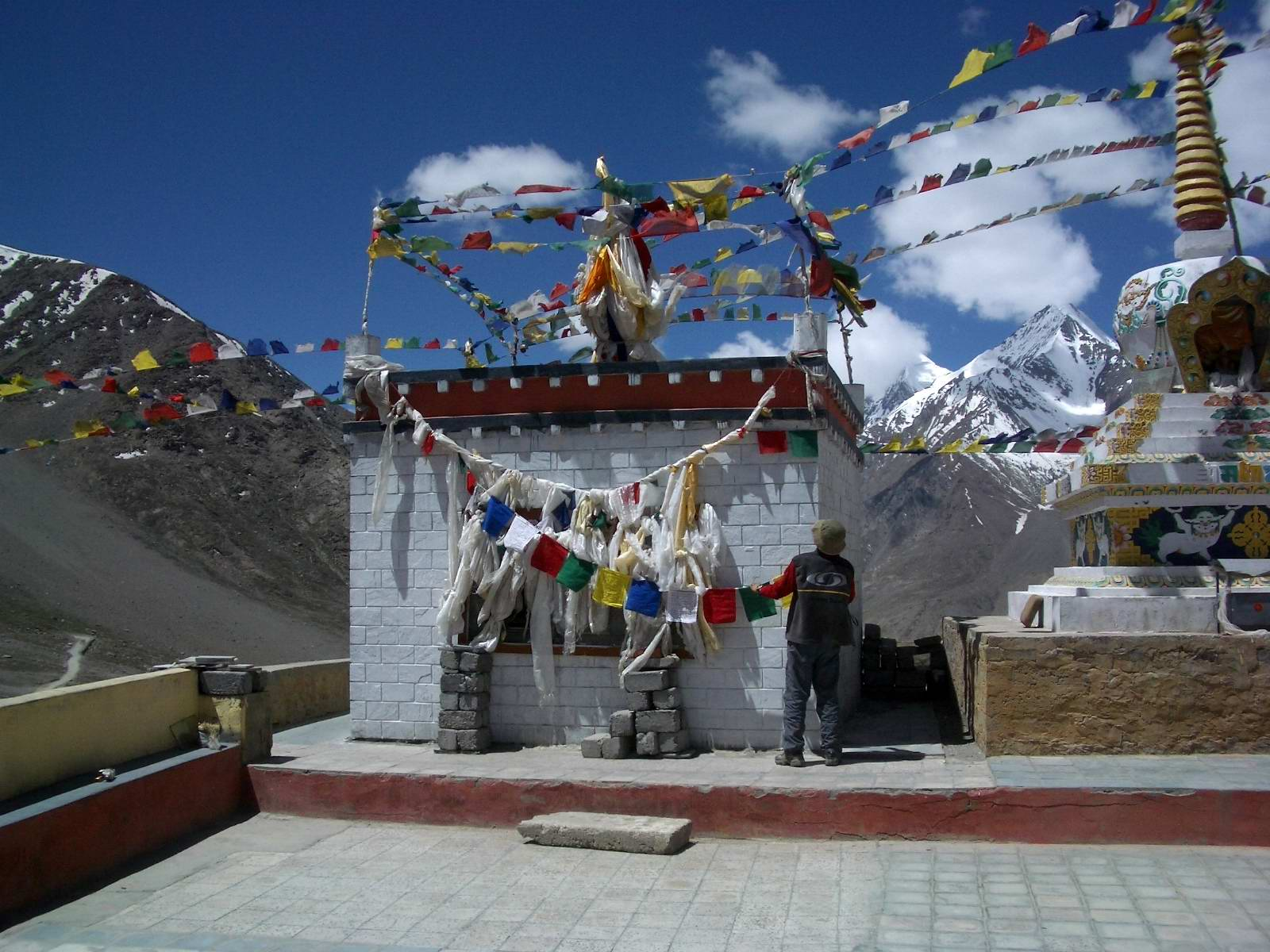 Kunzum Mata temple, Kunzum Pass. Photo taken on pass in June 2004